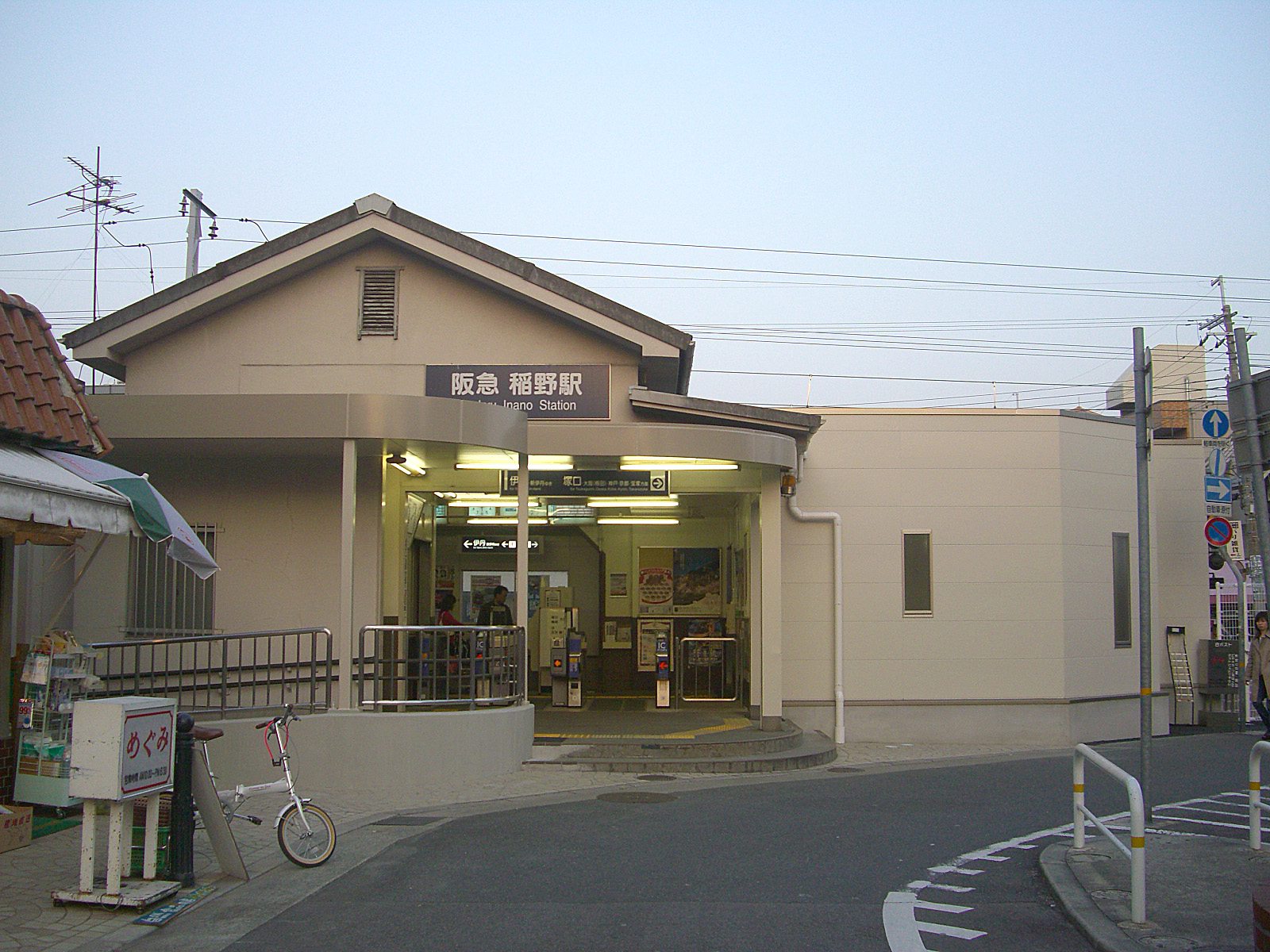 Hankyu Railway Itami Line Inano Station Building（North Gate）